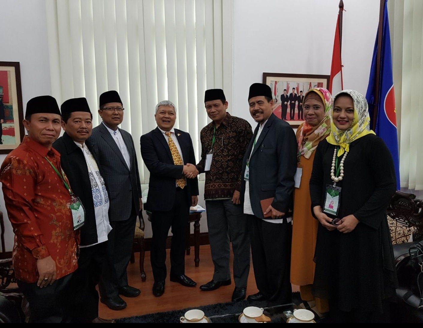 Kunjungan Muhibbah Da'i Serumpun di Thailand (Bambang Santoso bersama K.H Cholil Nafis, Marissa Haque beserta peserta lainnya)